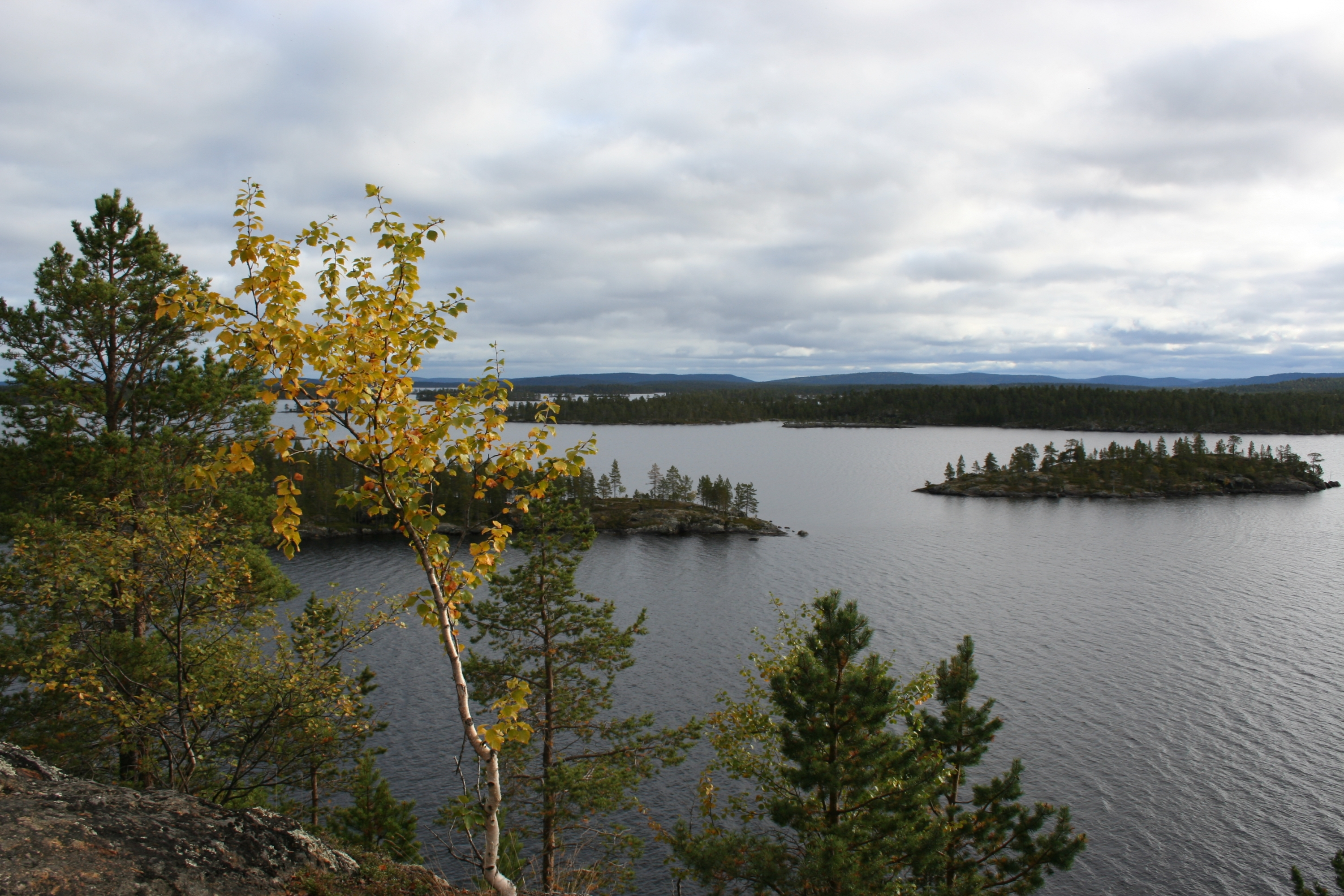 Lake Inari in Inari from Ukonkivi, Finland.